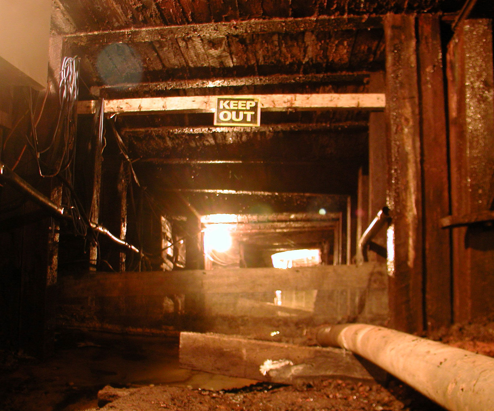 Inside a Springhill, Nova Scotia mine. This is the mine shaft that is open to the public, with guides.